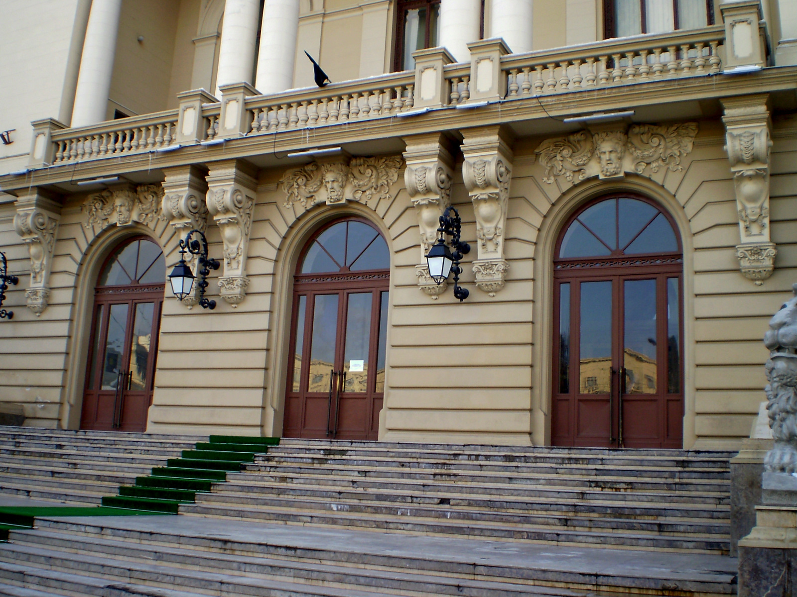 University "Alexandru Ioan Cuza" , Building A , detail main entrance , Iaşi , Romania